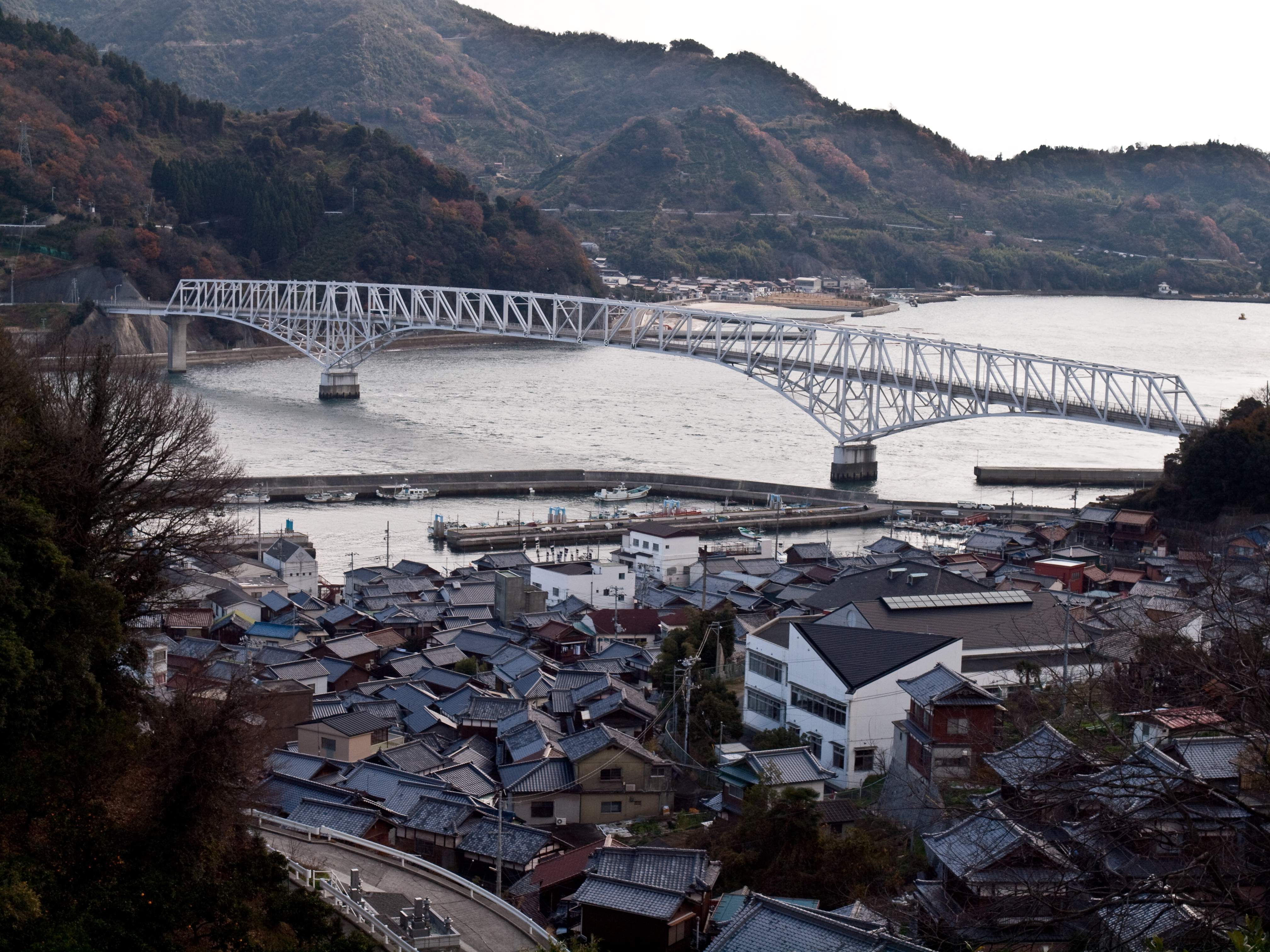 Toyohama Bridge